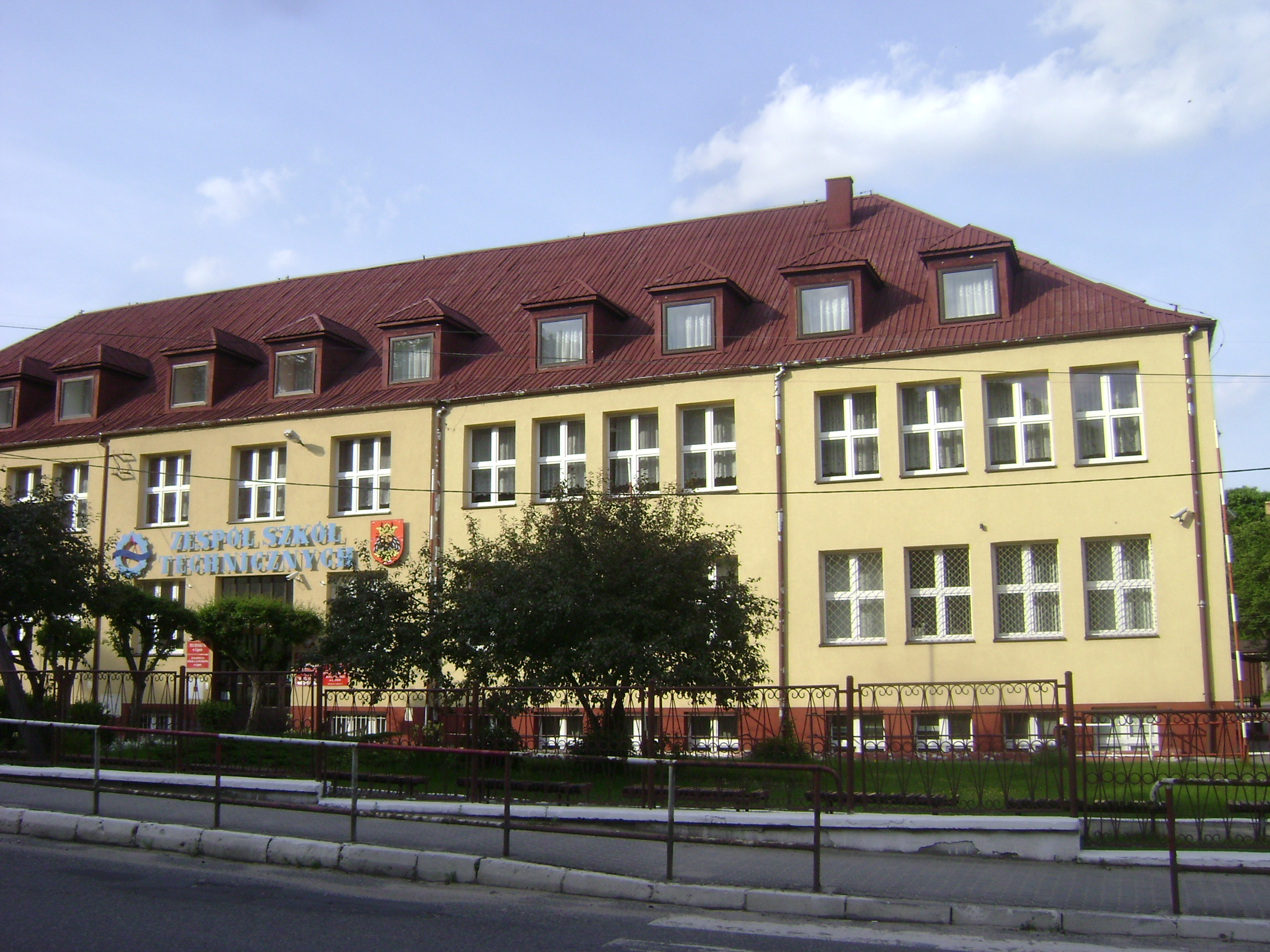 Poland. Kuyavian-Pomeranian Voivodeship. Lipno